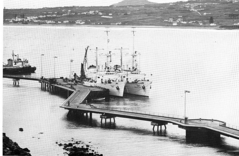 USNS Sands (T-AGOR-6) pierside, outboard of Lynch (T-AGOR-7), date and place unknown. US Navy photo from DANFS.